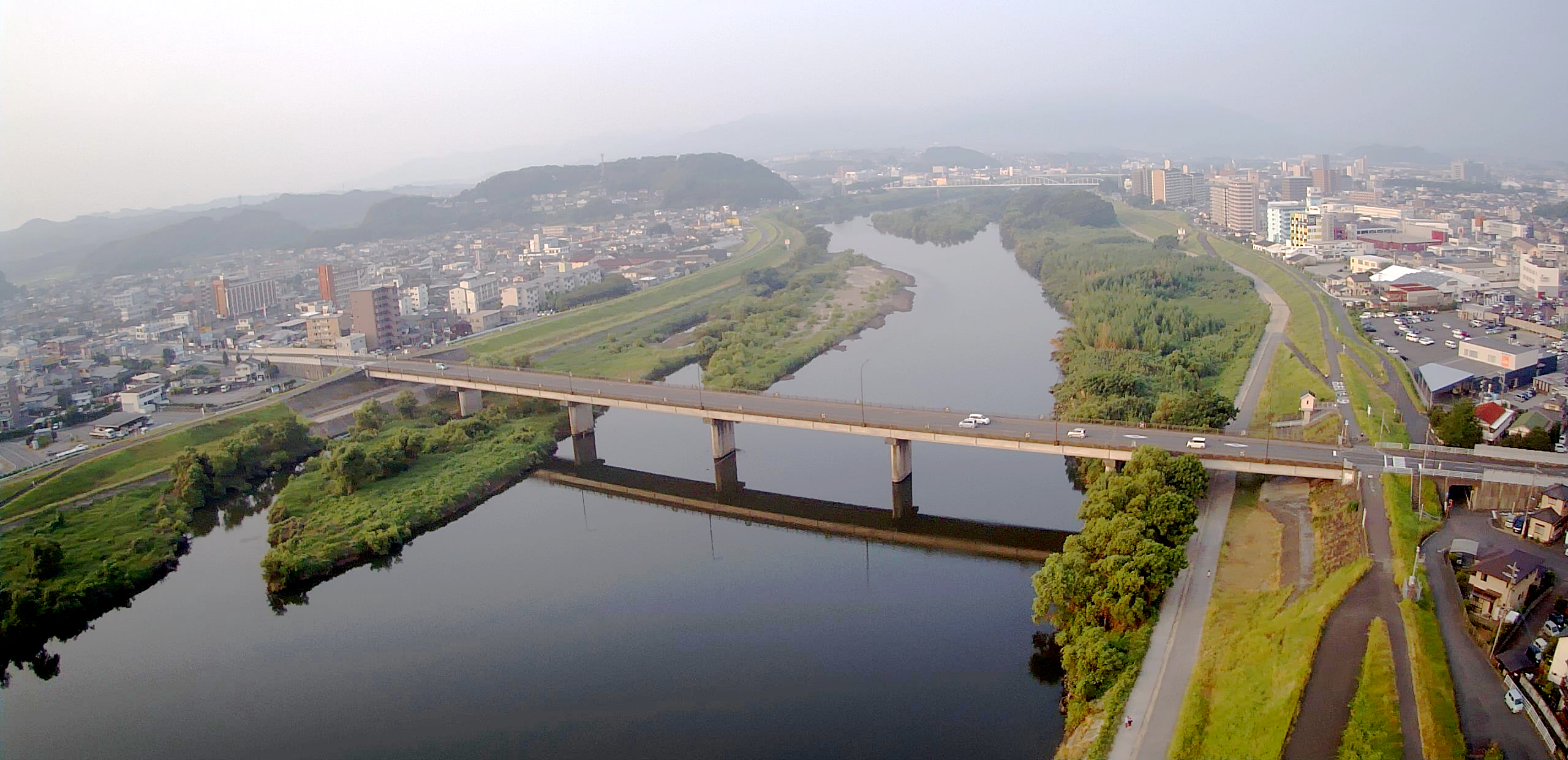 Hirose Bridge